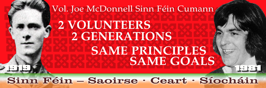 Sinn Féin supporters carry this banner at their annual commemoration to highlight the similarities between the fight for Independence in the early twentieth century and the republican struggle through the decades right up until present day.